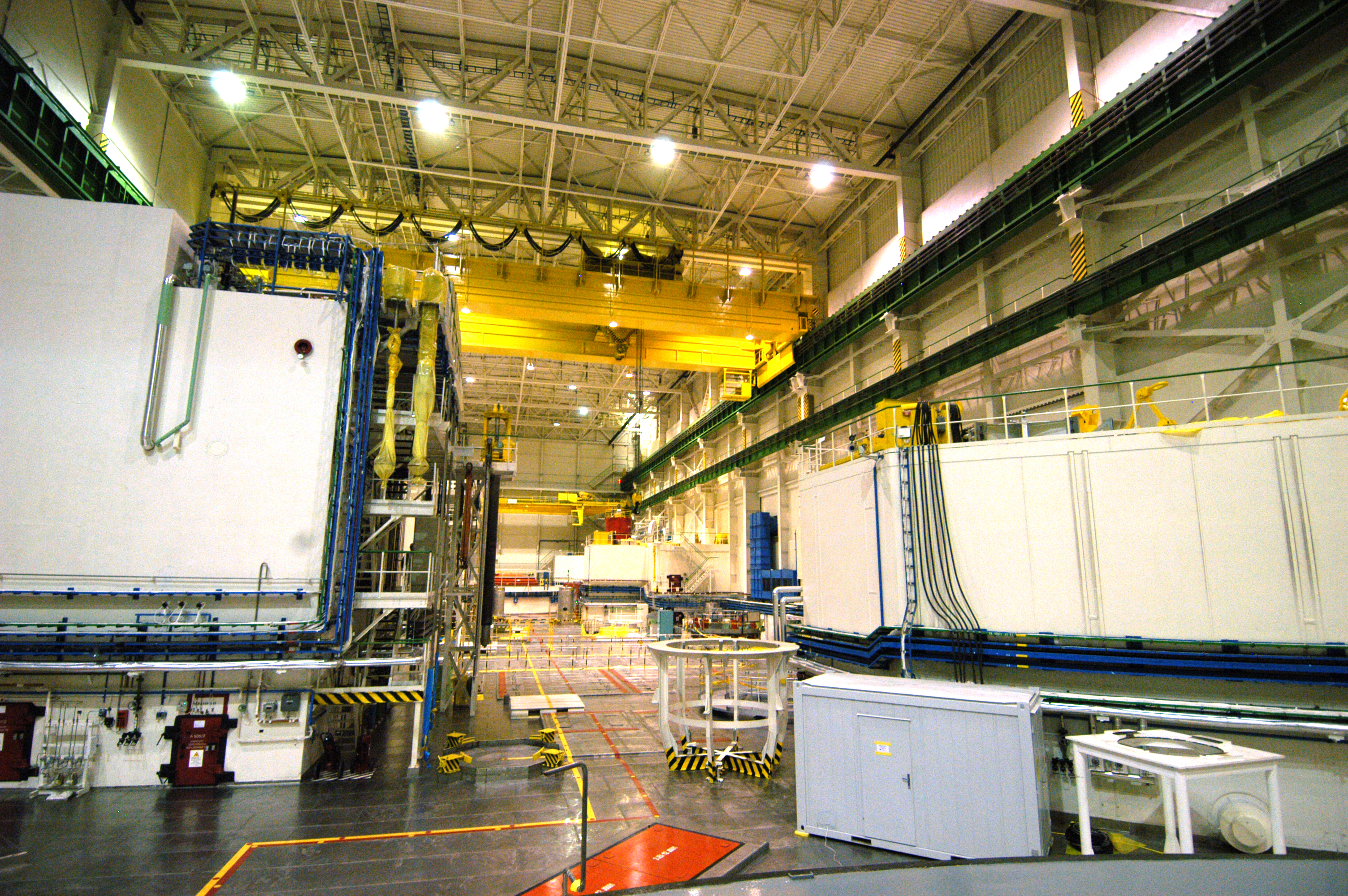 Reactor Hall of Mochovce NPP unit 1 and 2